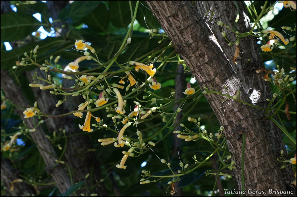 cauliflorous - production of flowers and fruits on the older branches or trunks of woody plants Tree native to Seychelles Mt. Coot-tha Botanic Garden